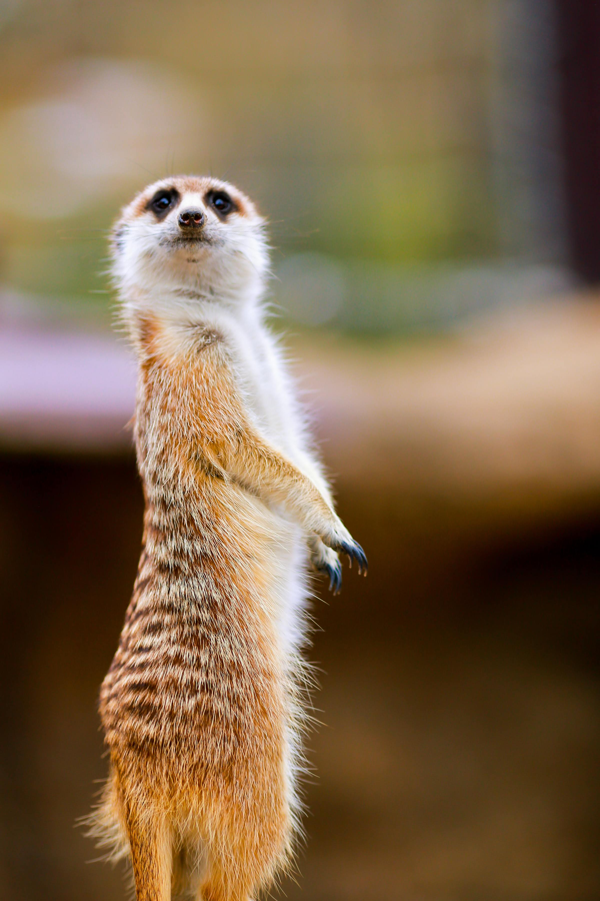 A Meerkat in Yokohama Zoo "Zoorasia"(よこはま動物園ズーラシア), Japan Dec, 2 2018